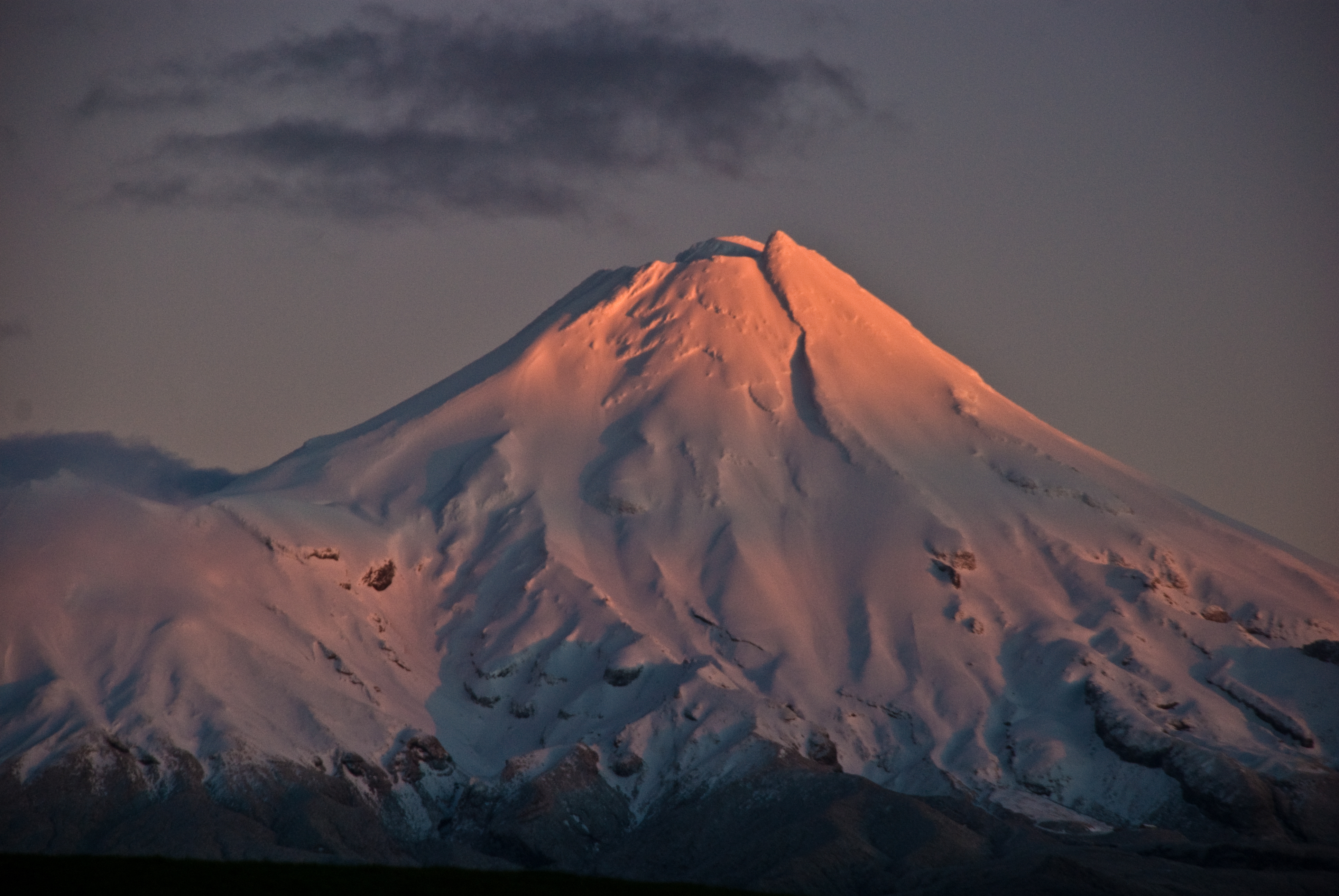 This shot was taken from the top of Hastings Road.